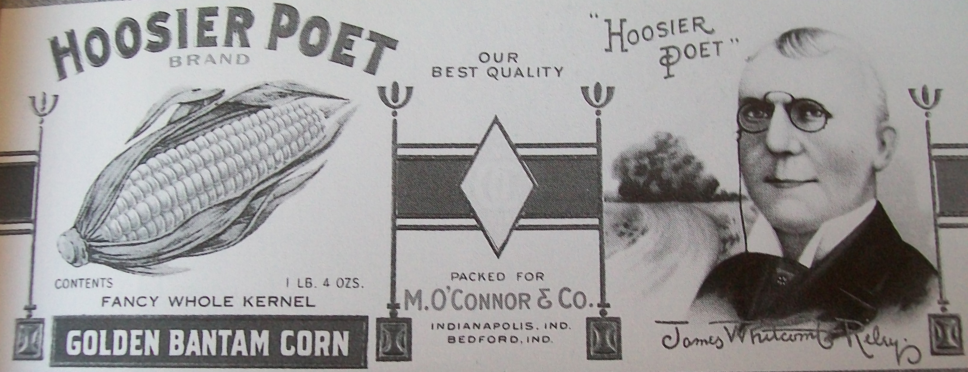 Hoosier Poet Brand vegetables. A label from a can of corn featuring an image of James Whitcomb Riley, the Hoosier Poet